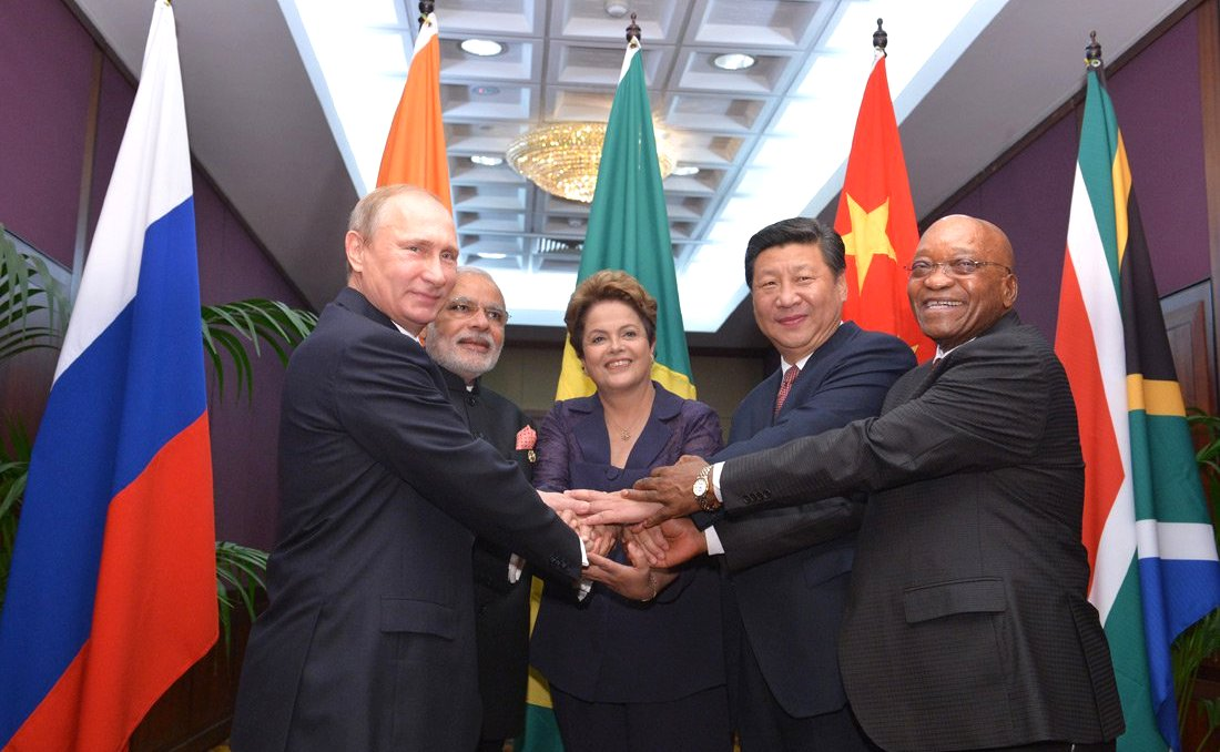 Participants in the meeting of BRICS heads of state and government: Vladimir Putin, Prime Minister of India Narendra Modi, President of Brazil Dilma Rouseff, President of the People’s Republic of China Xi Jinping and President of South Africa Jacob Zuma.